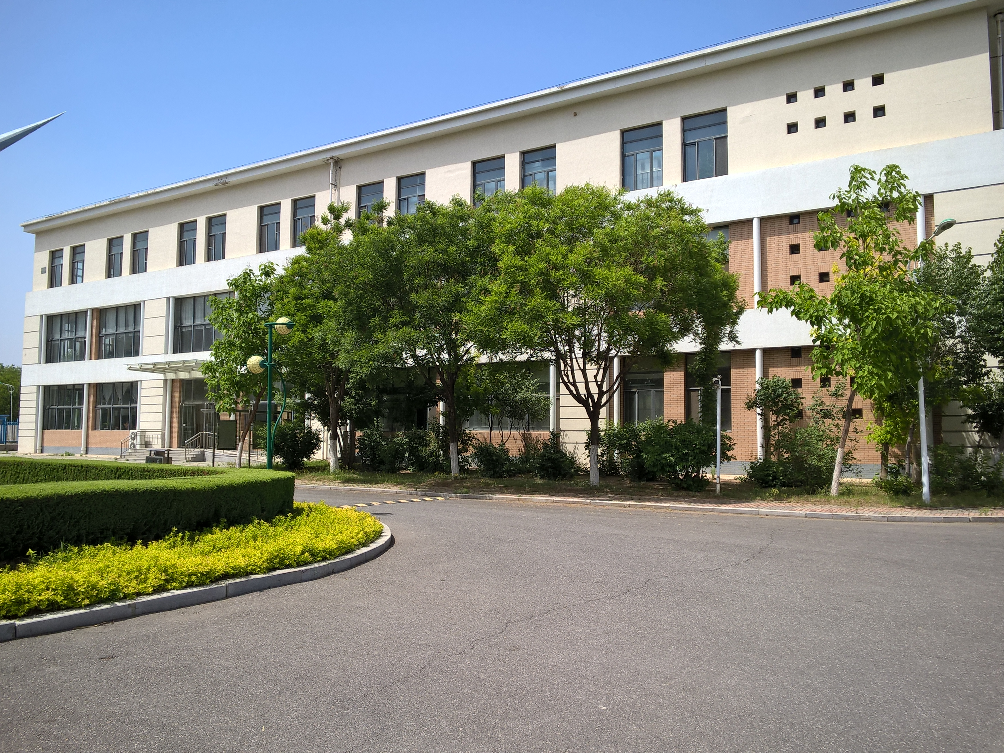 The school migrated from the old campus in Yinzhou District,Tieling City to its new campus in Fanhe Town,Tieling in 2011.